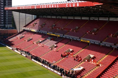 West side of The Valley